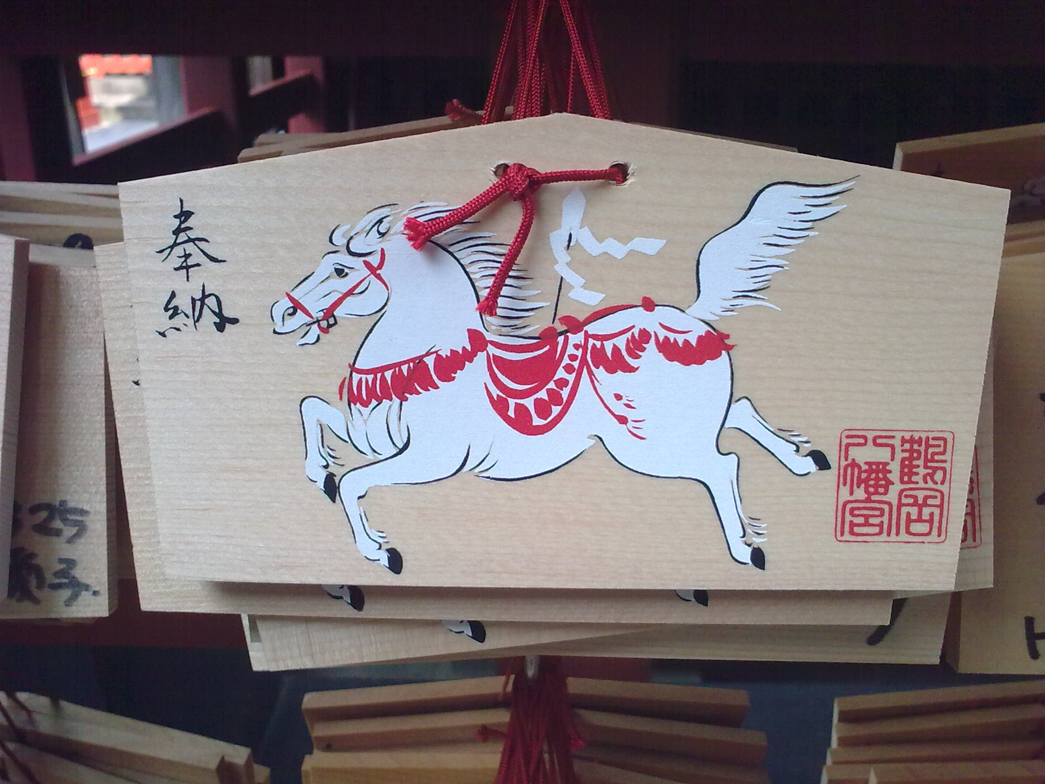 Ema - Japanese votive table